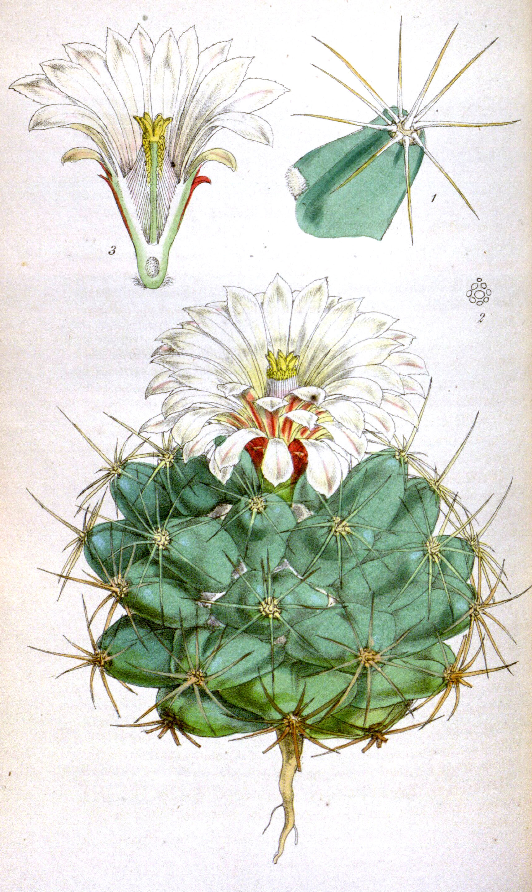 Mammillaria scheerii